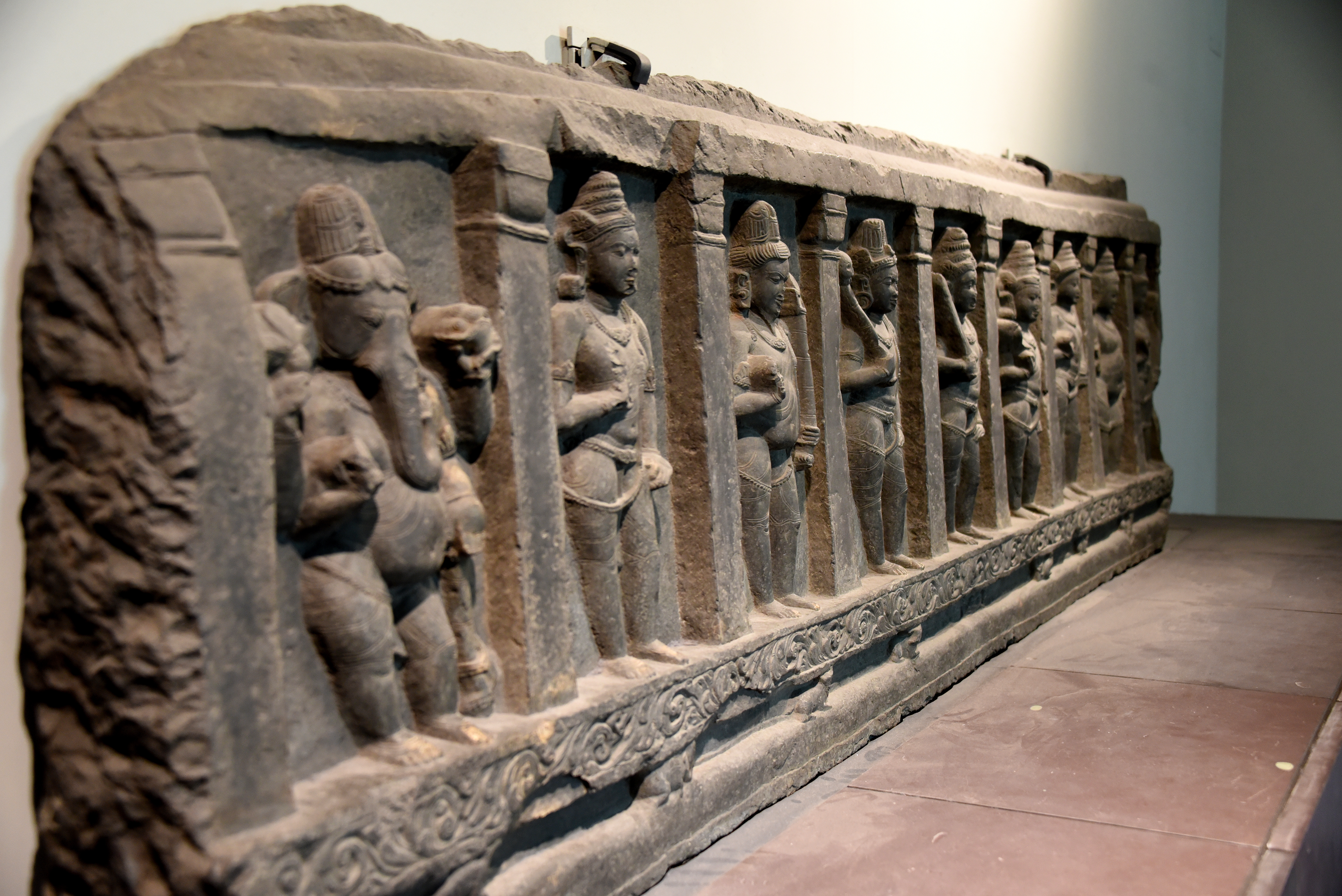 This carved basalt lintel of Ganesha and the eight Dikpalas dates back to 1000s to 1100s AC and once stood at the entrance of a Hindu temple. Here, Ganesha, the eight-headed god is accompanied by the Dikpalas, guardians of the eight directions or compass points. From Western India. It is currently housed in the British Museum in London.